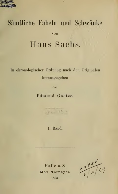 Title page